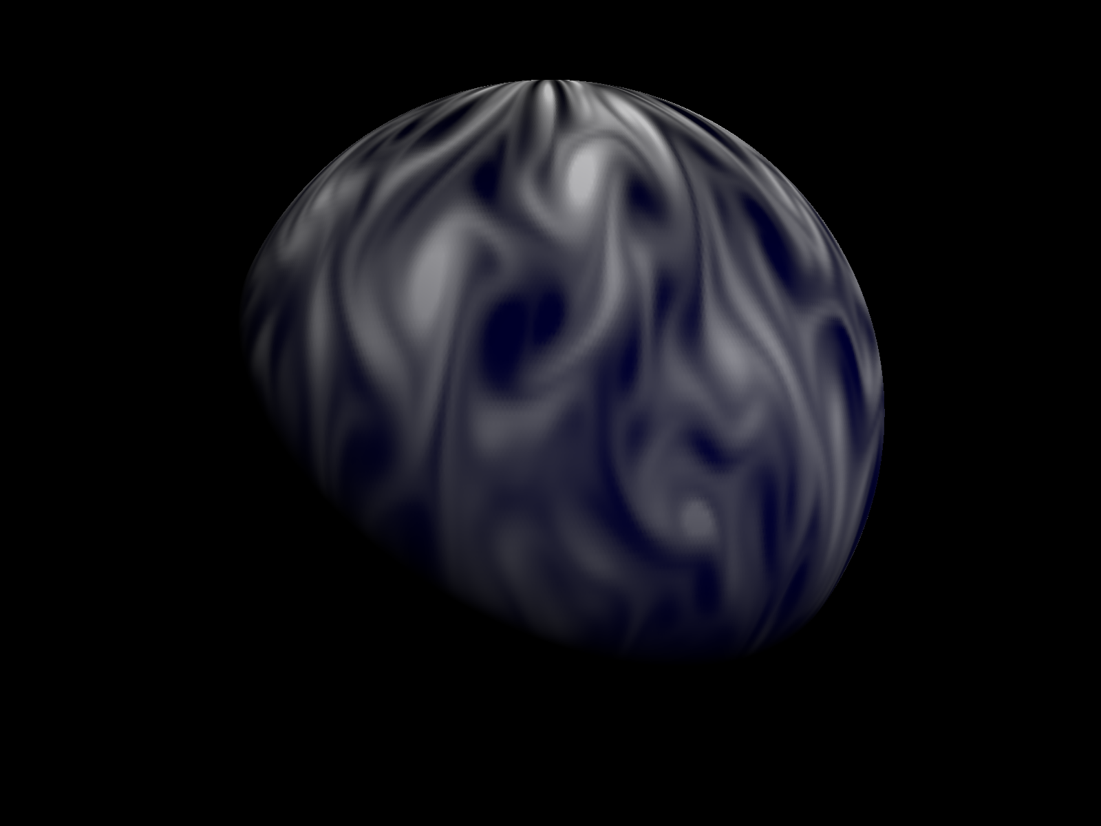 Fictional ocean planet, "waterword" that has clouds above the ocean, seen from space.